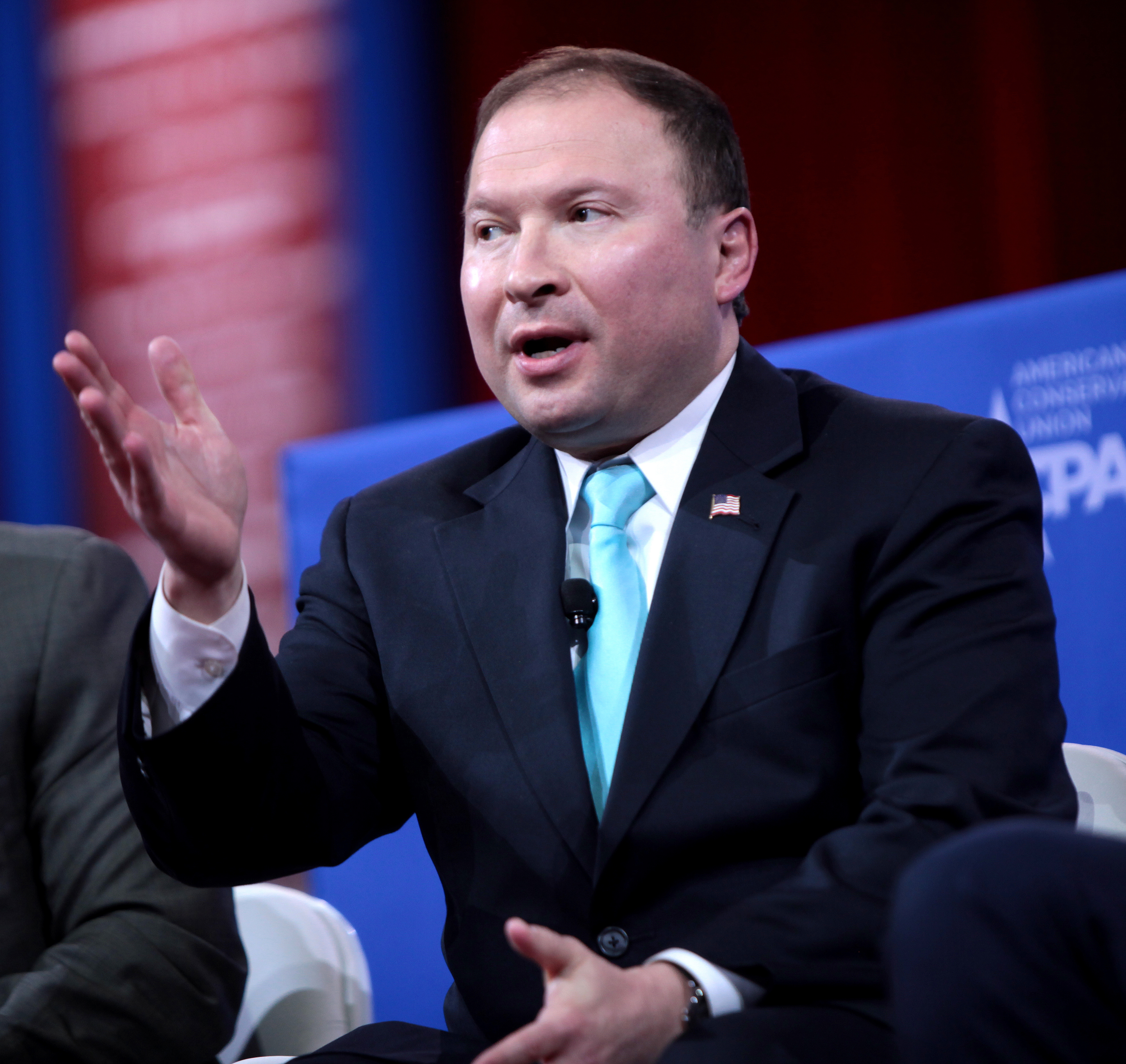 Jeffrey D. Gordon speaking at the 2015 CPAC in National Harbor, Maryland.